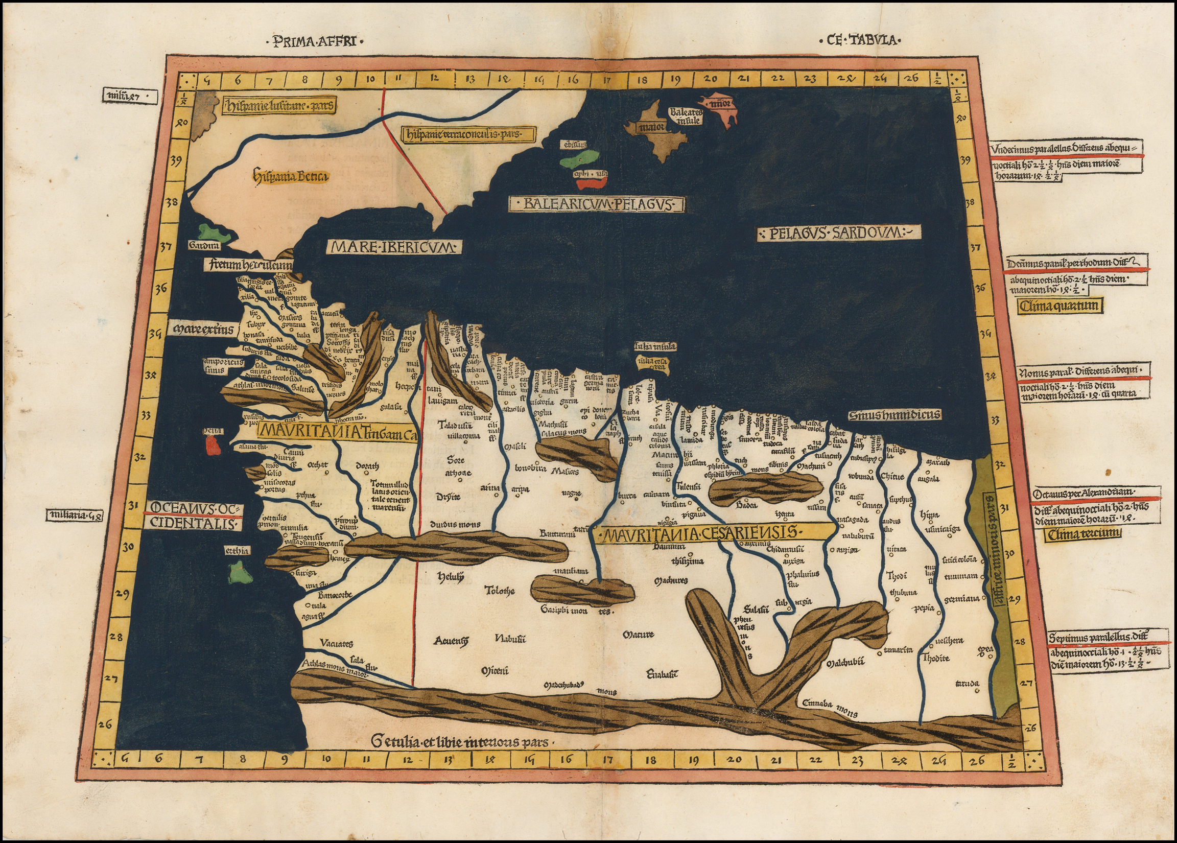 The First African Map (Prima Affrice Tabula), depicting Mauretania Tingitana (northern Morocco) and Mauretania Caesariensis (western and central Algeria), from the Ulm Ptolemy.